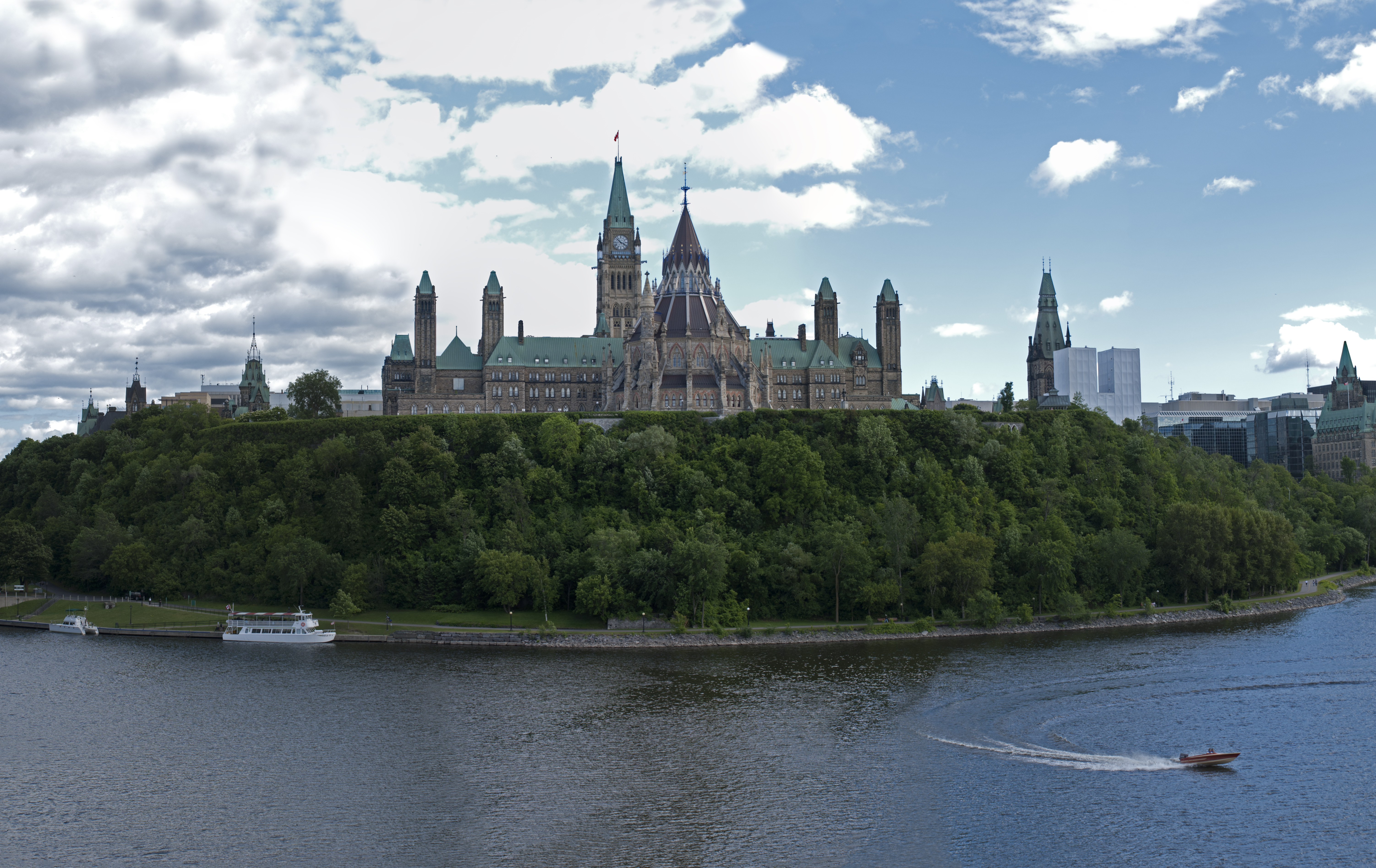 Photograph of Parliament Hill, Ottawa. Taken from Ottawa/Ontario end of Alexandra Bridge.